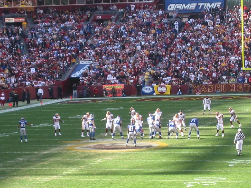 The Washington Redskins and New York Giants face off at FedExField in 2005.